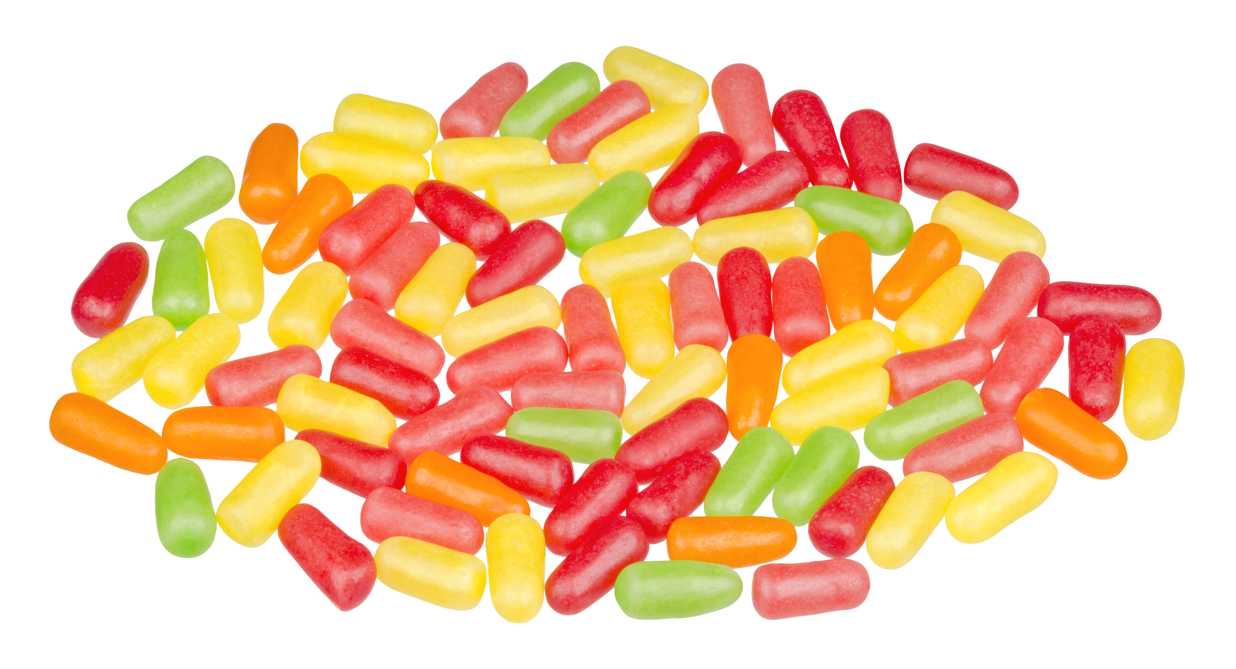 A pile of regular Mike and Ikes, a fruit-flavored sugar candy made by Just Born and sold in the United States.